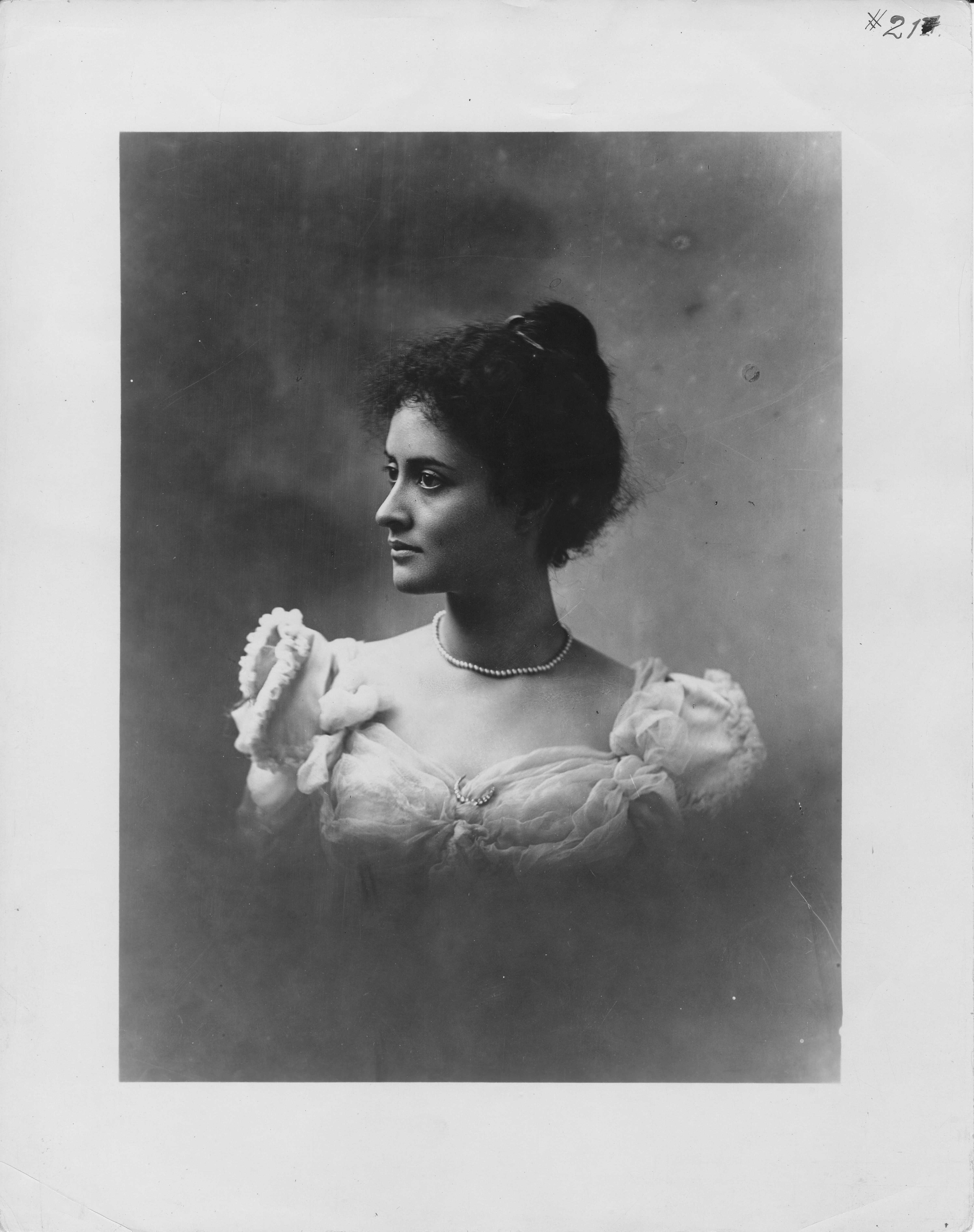 Princess Kaiulani in 1897